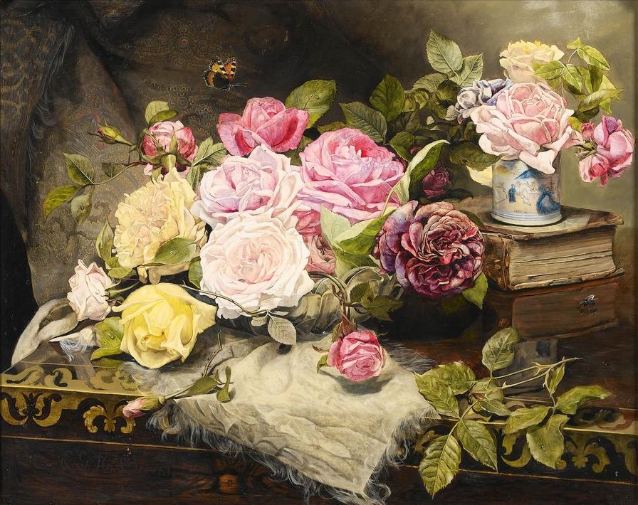 Oil painting by E G Handel Lucas, painted in 1878